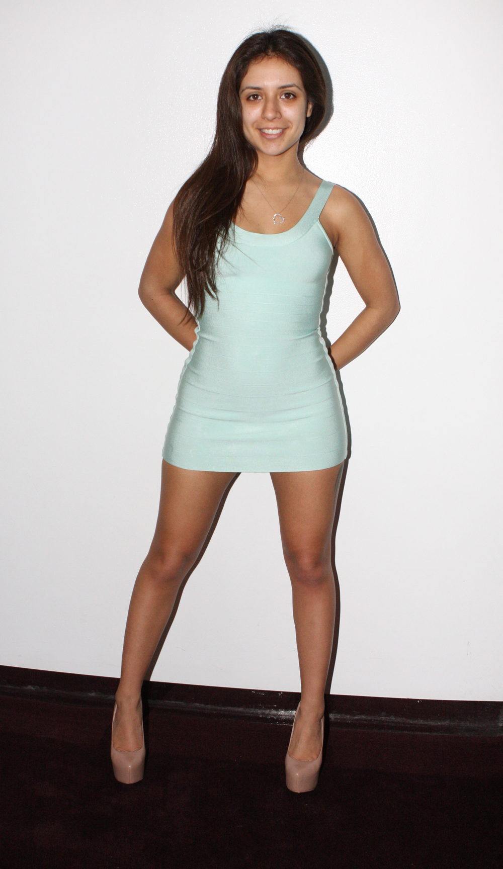 SEXPO – Sexuality and Adult Lifestyle Exhibition is the worlds largest adult show. Sexpo boasts international performers in all aspects of adult entertainment. The aim of the exhibition is to provide a fun vibrant atmosphere for like minded people - to enjoy and find information on ALL THINGS ADULT. Sexpo is not just about SEX, it is about sexuality and adult lifestyles. At SEXPO you will find hundreds of exhibitors, and there is something for everyone. If you are looking for that fun, different or even special gift for a friend or loved one. You will find it all at SEXPO. Our entertainment is second to none, with our international pornstars, male and female HOT bodies, hypnotists, comedians, lingerie parades and our WORLD FAMOUS AMATEUR STRIP! SEXPO provides all their patrons with the opportunity to mix in a bit of shopping and socialising with world class entertainment thrown in – what better way to spend a day/night out with friends or with your partner.